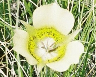 Flower of Pecos mariposa lily — Calochortus gunnisonii var. perpulcher. In grass on Hamilton Mesa, Santa Fe National Forest, San Miguel County, New Mexico, in late July, 2006. For identification of this very local variety or color morph, see this short key. JerryFriedman 17:14, 31 August 2006 (UTC)